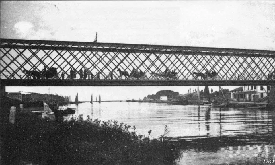 Ponte pescara 2